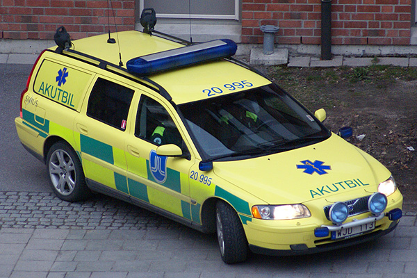 Fly-car (Medic-car), Volvo V70, in Stockholm Sweden